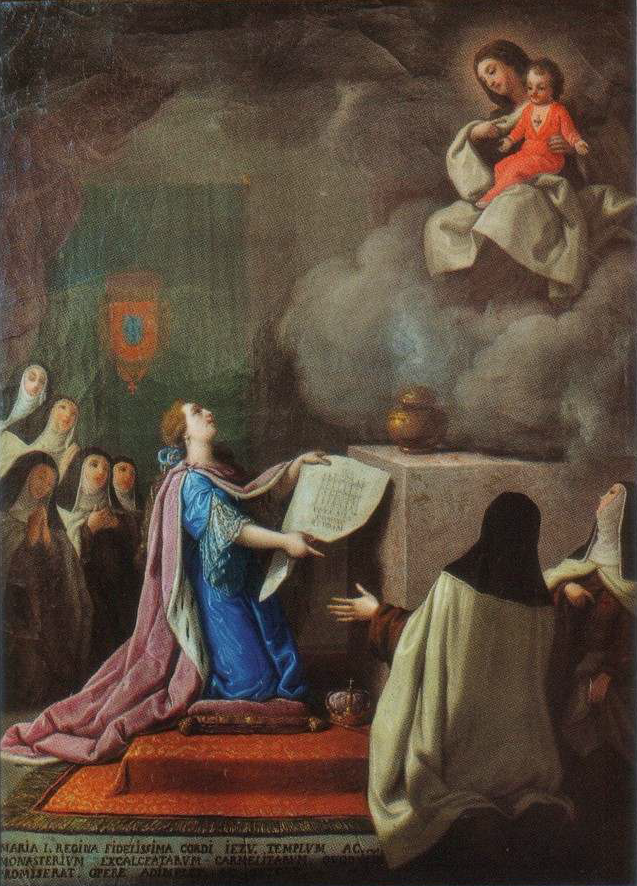 Queen Maria I dedicates the Estrela Basilica to Our Lady (c. 1778), by Joaquim Manuel da Rocha